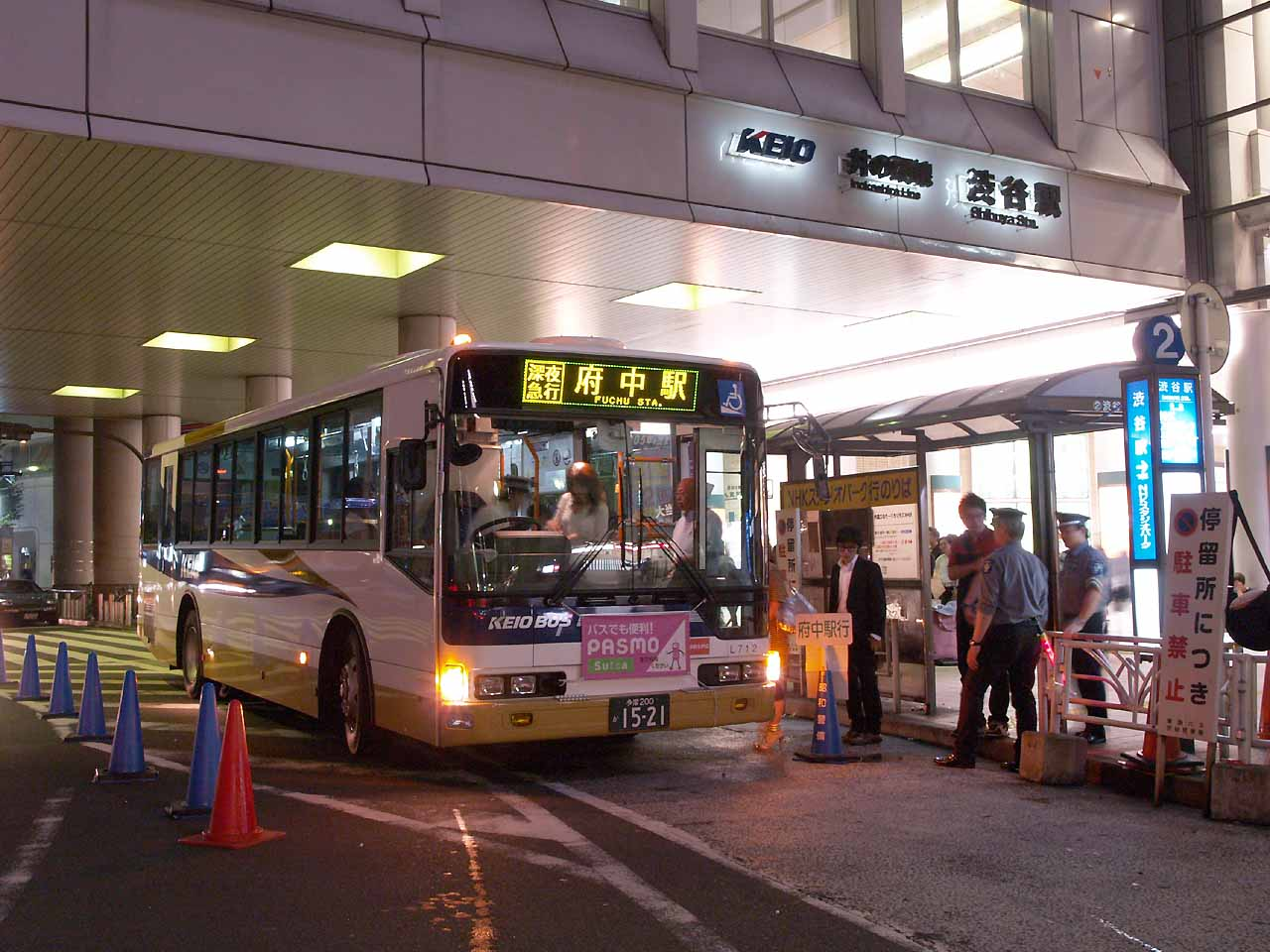 fleet of Midnight express bus for Keio Bus Higashi, bound for Chofu and Fuchu from Shibuya. Model: Mitsubishi Fuso Aero Star PJ-MP35JP License plate: TKT200 KA1521（多摩200か1521） Base: Chofu Dept Place: under of Shibuya Mark City, Shibuya station - Shibuya ward, Tokyo Japan